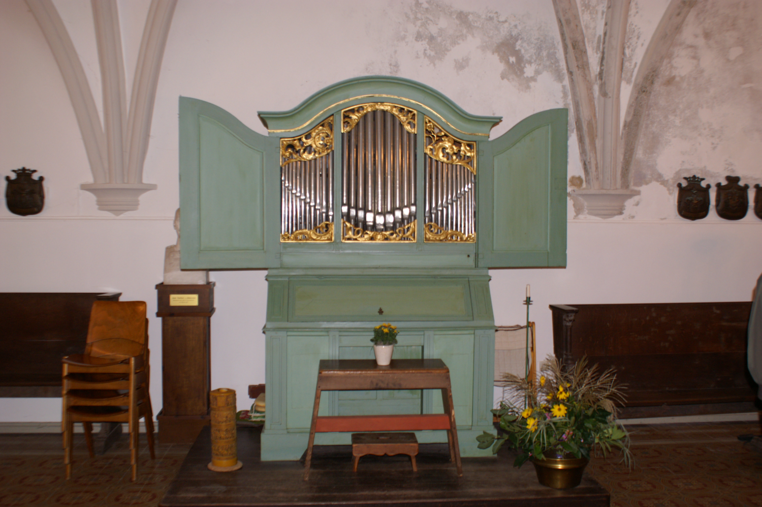 The Bellmannorgel from St. John's priory in Schleswig, it was the organ on which Carl Gottlieb Bellmann composed the anthem of Schleswig-Holstein Schleswig-Holstein meerumschlungen